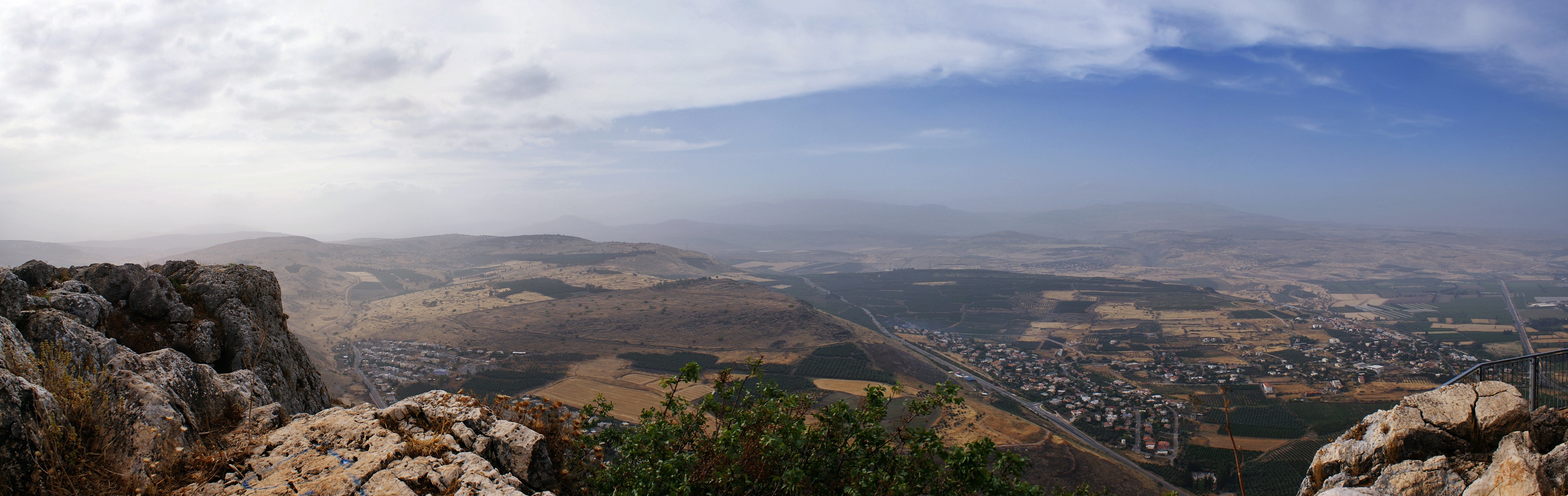 View looking North from Mount Arbel, Israel in Spring 2007 . Village on the left of the picture is Haram while on the right it's Migdal.